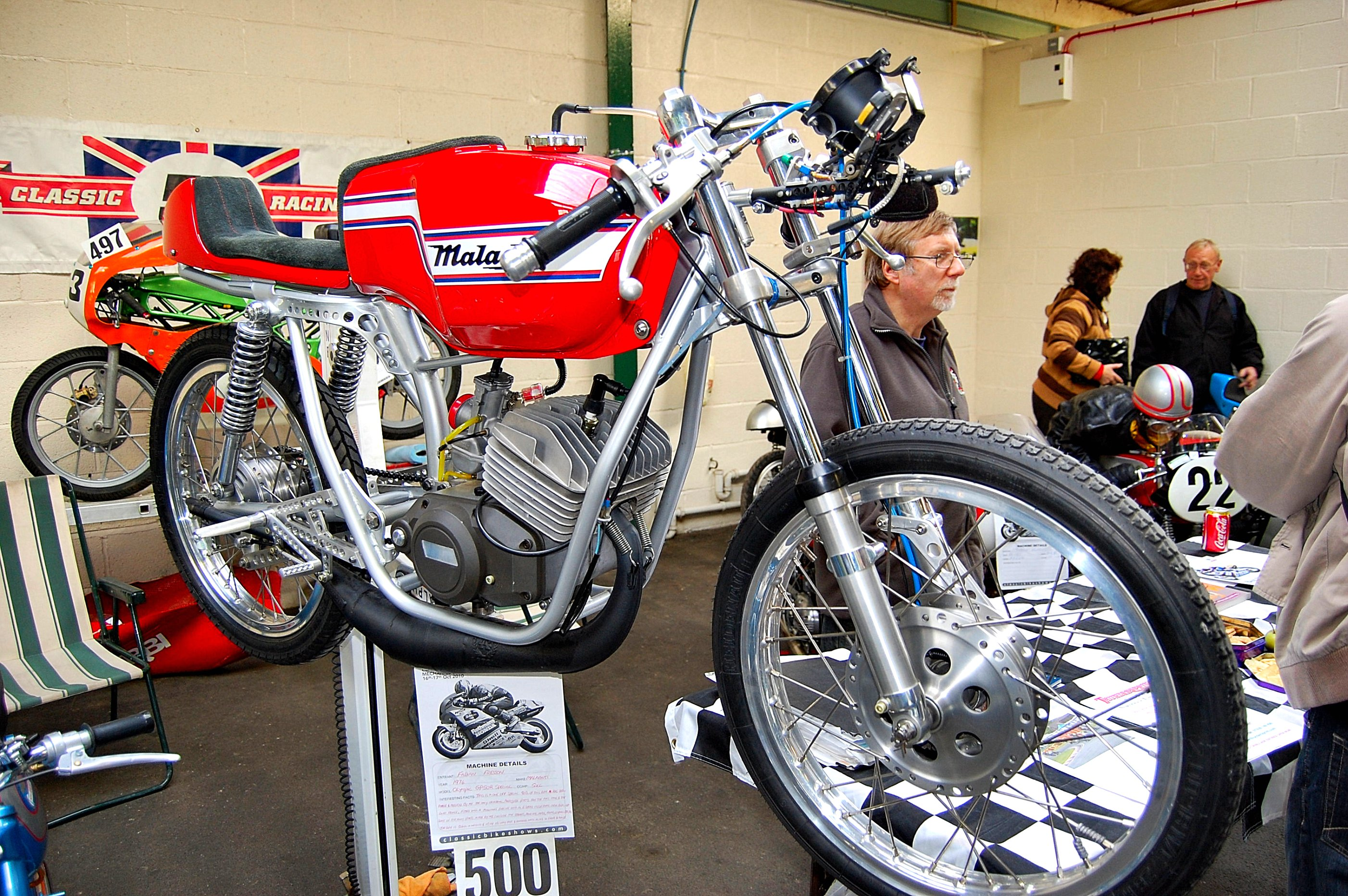 One one-off special made by the current owner. The only original Malaguti parts are the fuel tank and the lower frame. Very attractive machine – and according Carole Nash Classic Mechanics Show in 2010. Manufacturer: Malaguti Model: Olympic GP50R Special Engine: 50cc Year: 1974 Decade: 1970s Machine Type: Road